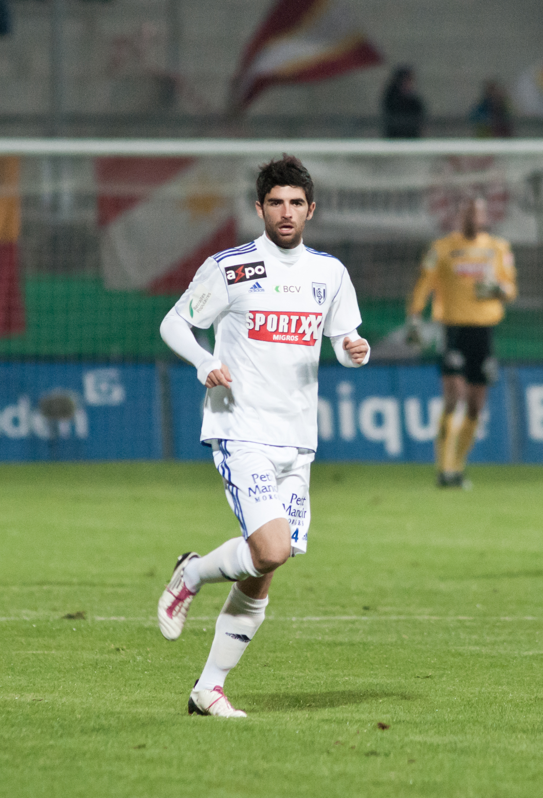 The making of this document was supported by Wikimedia CH. (Submit your project!) For all the files concerned, please see the category Supported by Wikimedia CH. Lausanne Sport vs. FC Thun - 22.10.2011